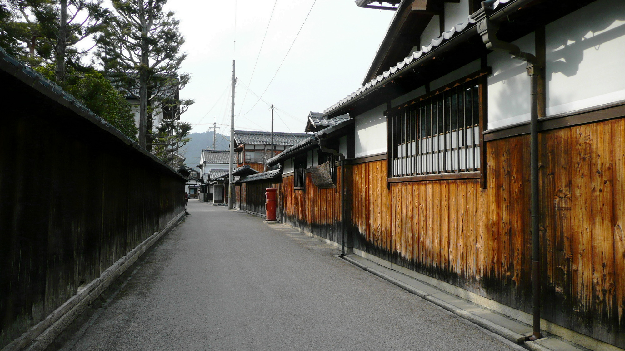 Town_of_Gokasho-cho,Higashi-Oumi city,japan.